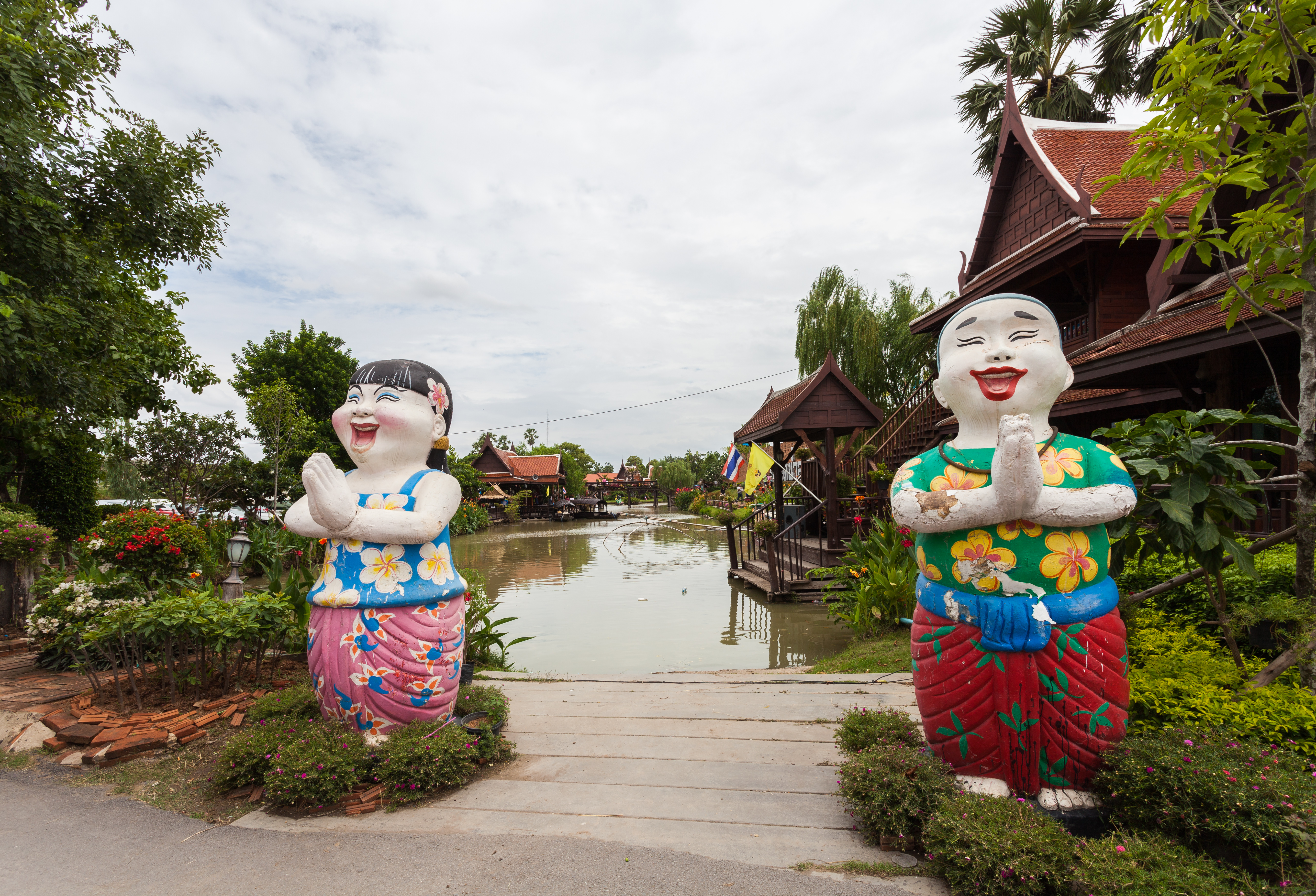 Floating market, Ayutthaya, Thailand